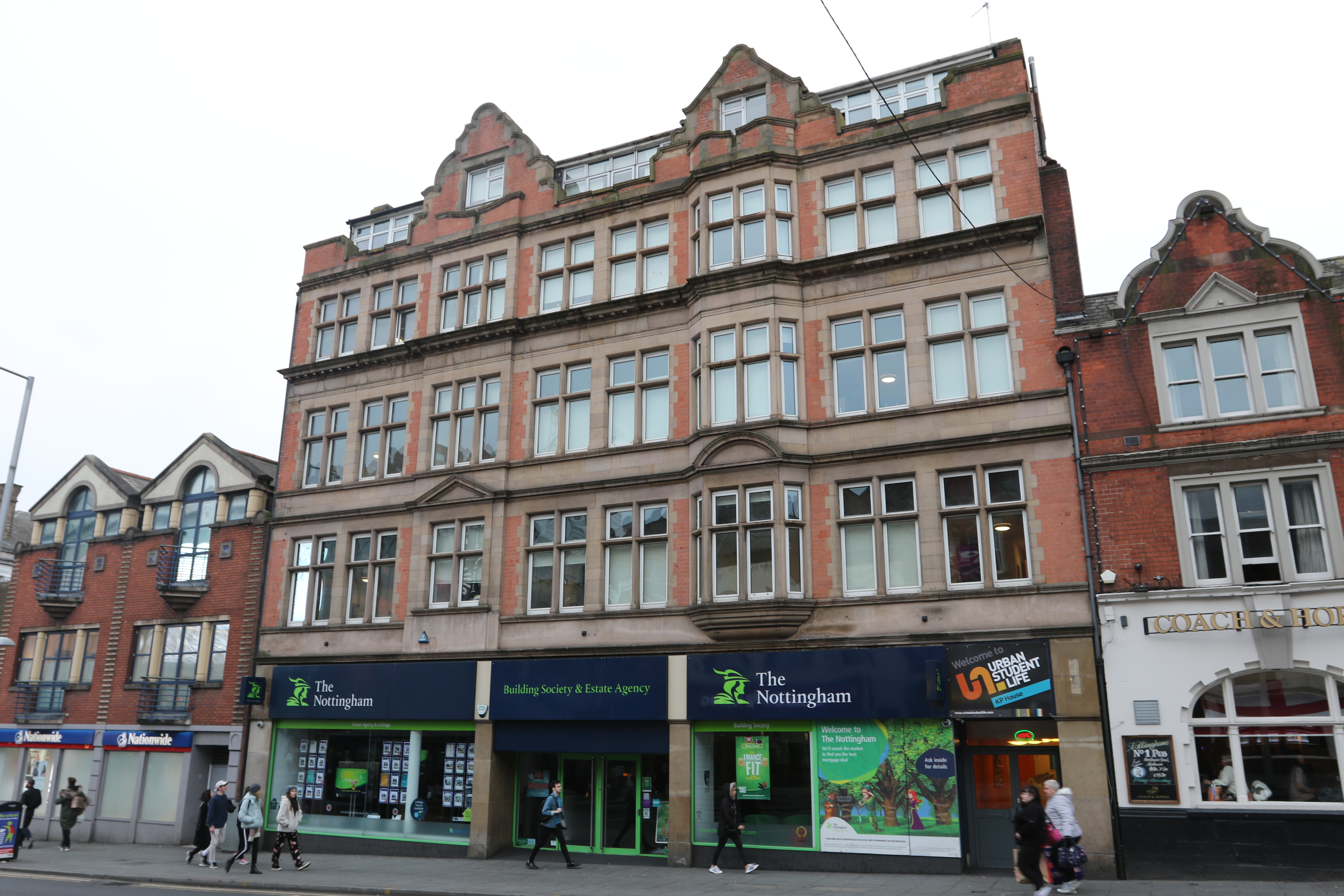 Nottingham Building Society, built in 1900 as Heazells' Insurance Offices